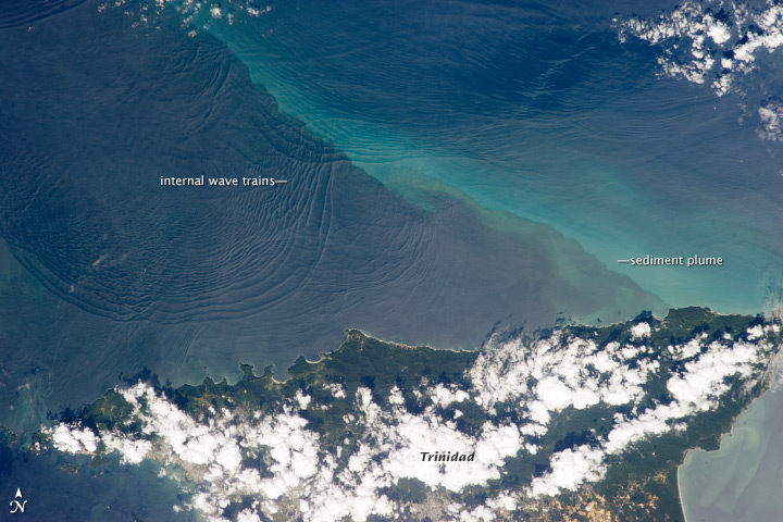 Internal waves near the island of Trinidad as seen from space